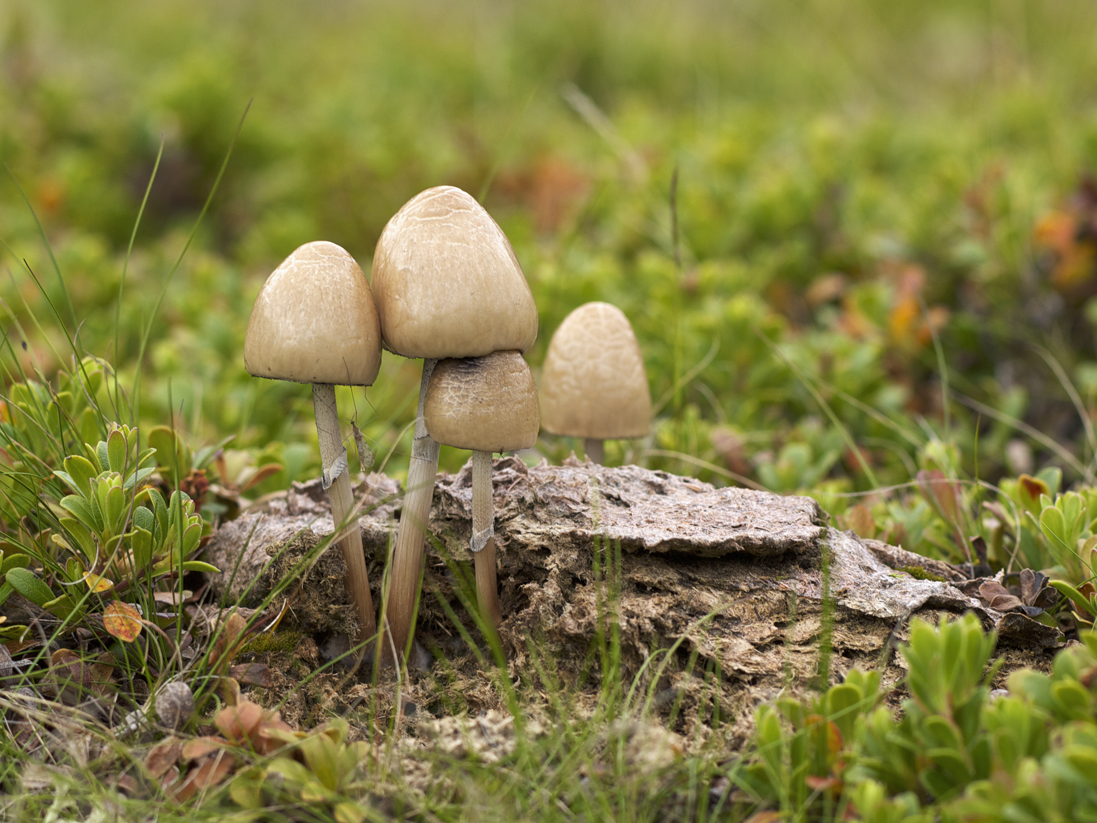 Shiny Mottlegill (Panaeolus semiovatus), Grimsdalen, Rondane National Park, Norway